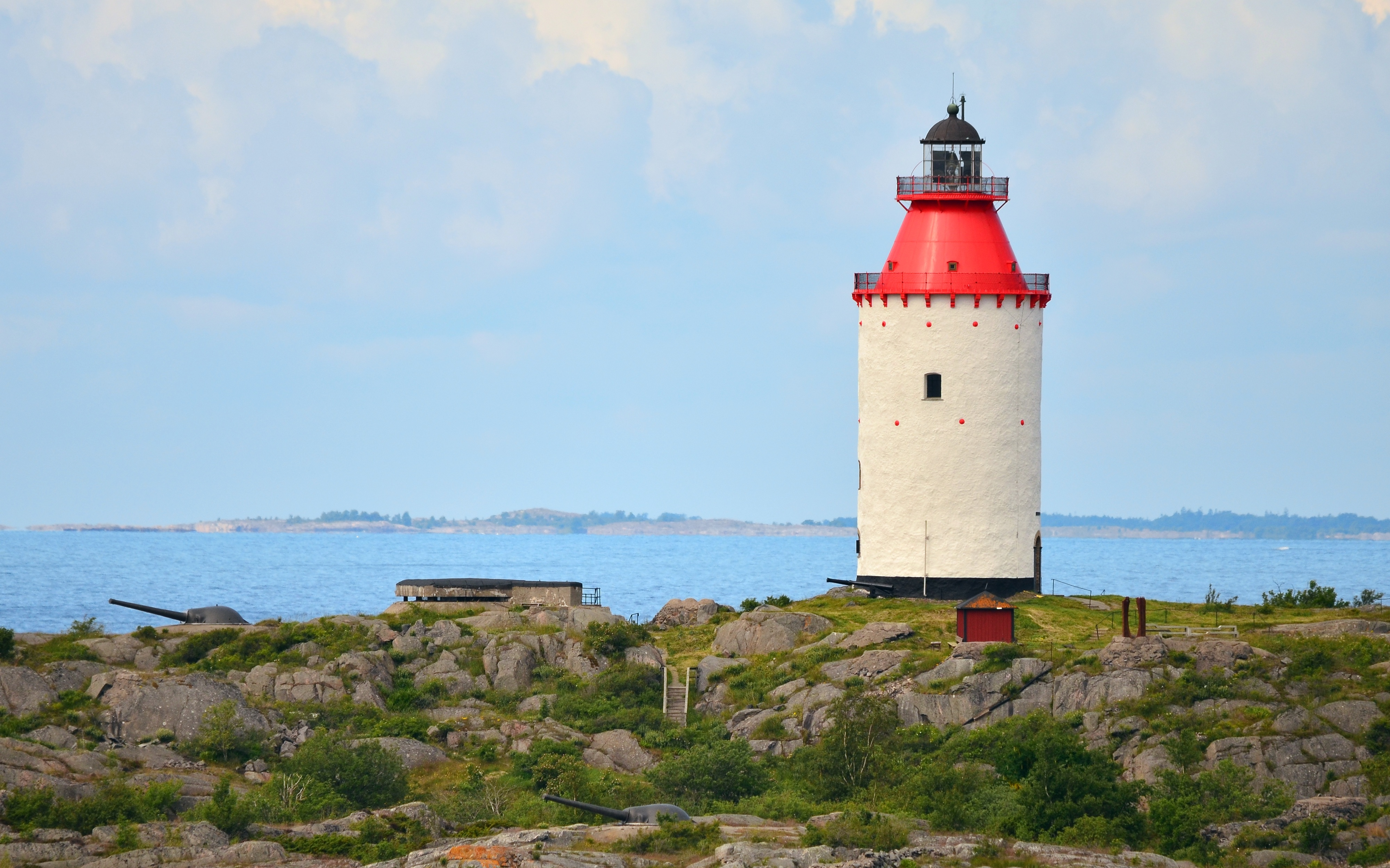 The lighthouse at Landsort, Stockholm archipelago, Sweden.